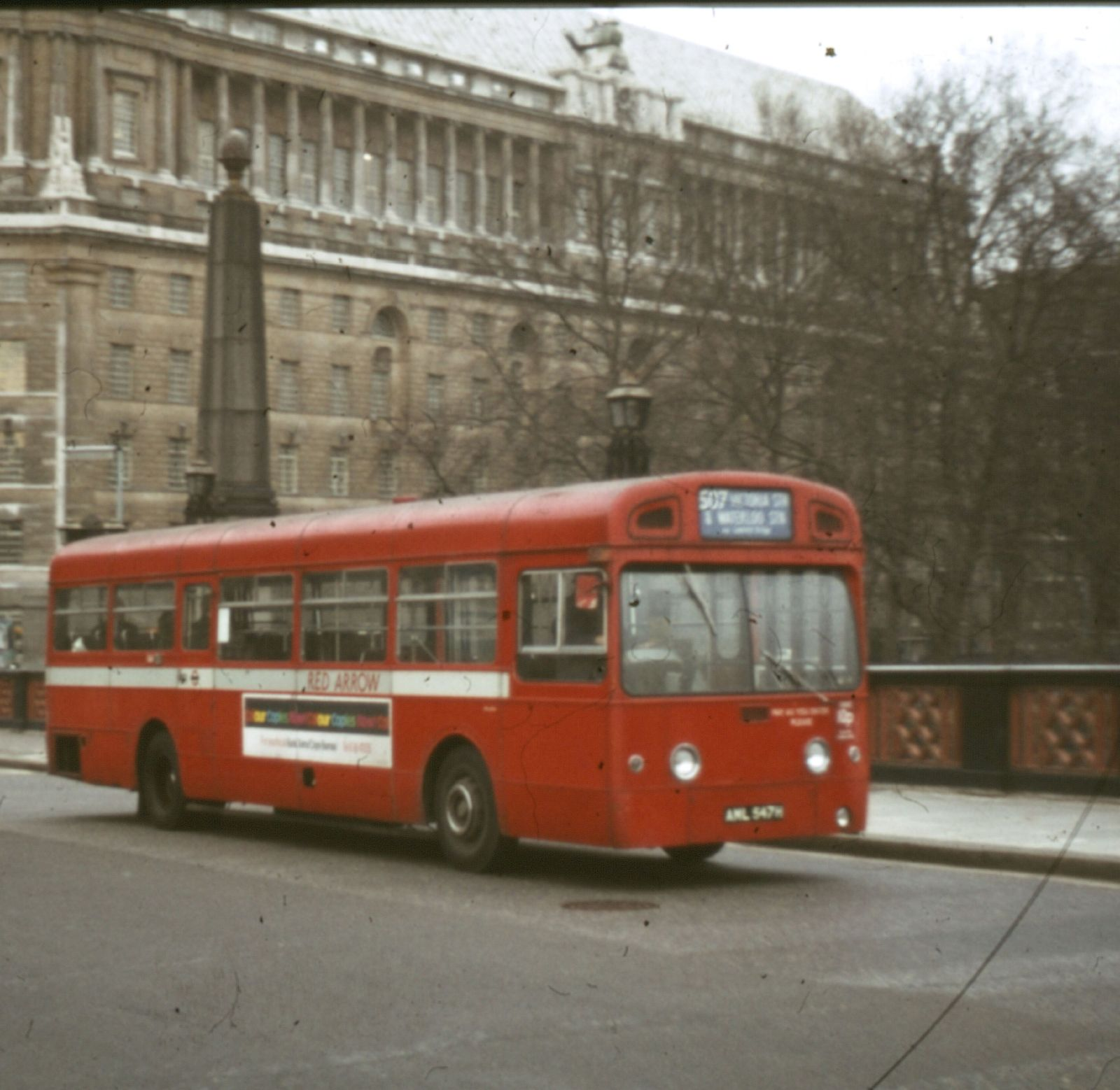 London Transport bus MBA547 (reg. AML 547H), branded for and operating Red Arrow route 507. It was delivered in July 1969 as MBS547 (VLW 547G), but was renumbered and re-registered within 2 months, for use on the Red Arrow routes. Withdrawn by May 1981, by June 1982 it had been sold and was being cannibalised for spares.